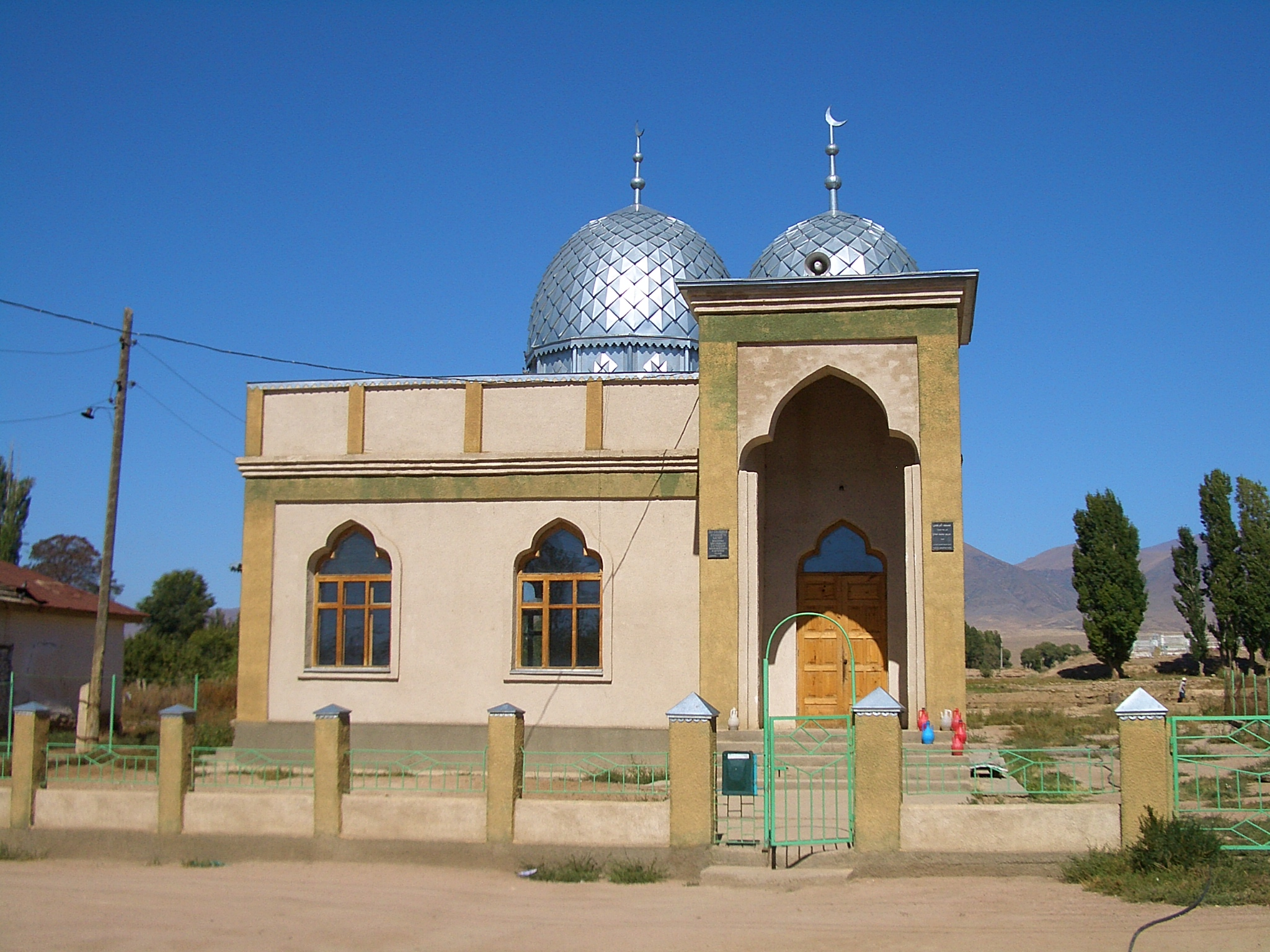 Mosque in the village of Tamchy, Issyk Kul Province, Kyrgyzstan